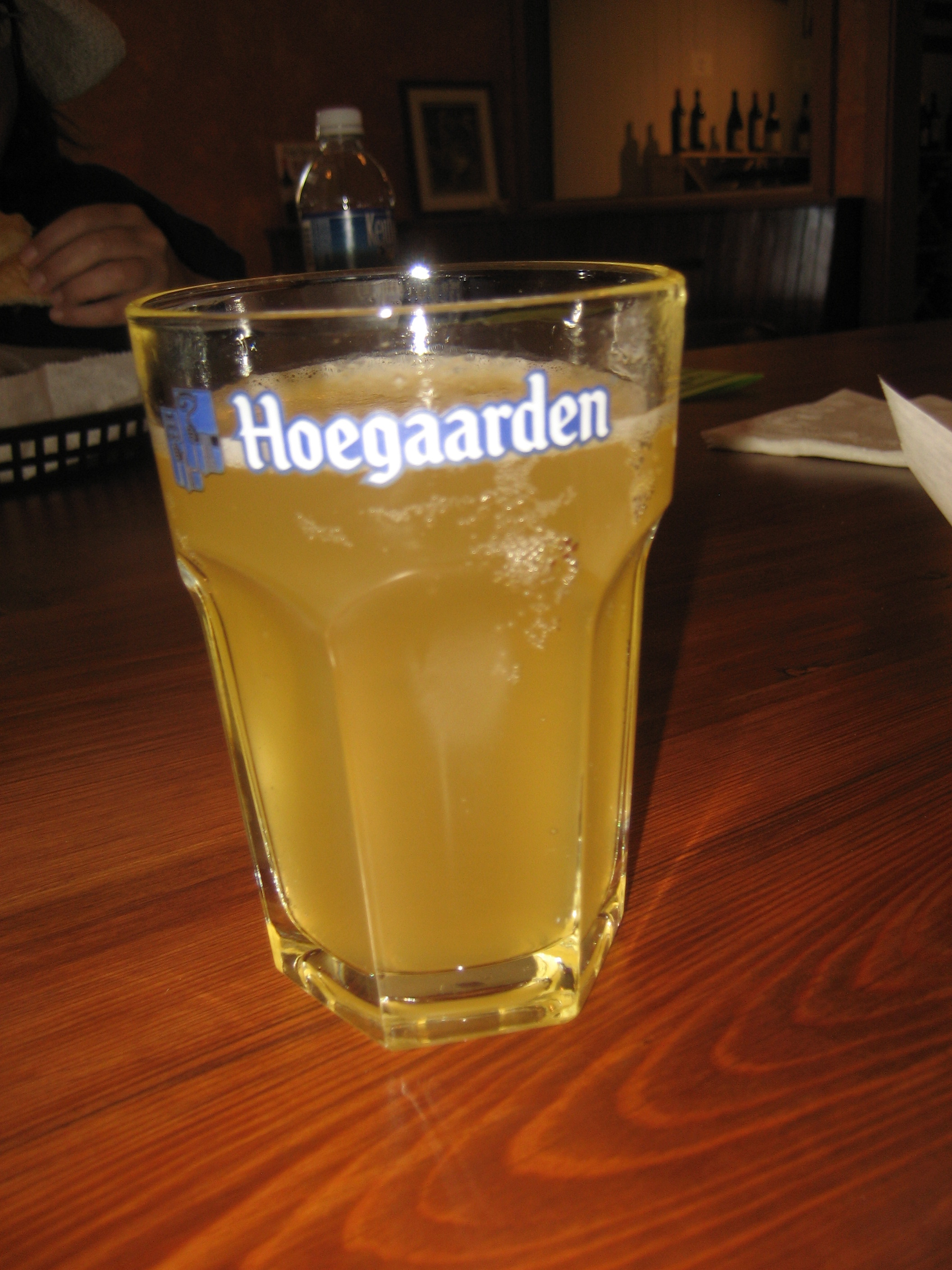 New Orleans. Old Algiers neighborhood. "Vine & Dine" restaurant & wine shop. Glass of Hoegaarden beer.